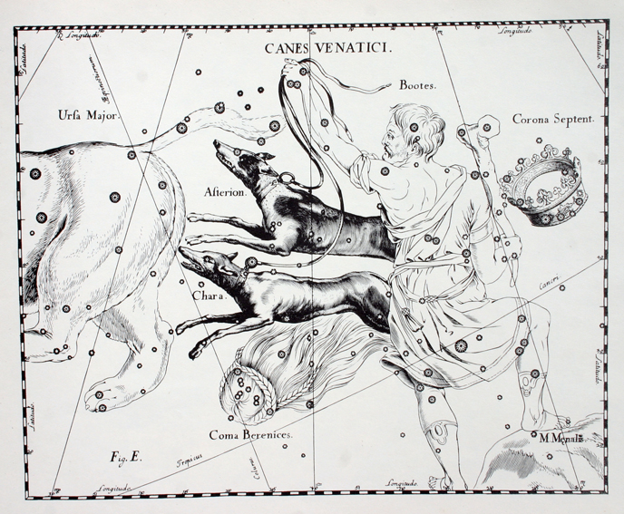 The Canes Venatici constellation from Uranographia by Johannes Hevelius. The view is mirrored following the tradition of celestial globes, showing the celestial sphere in a view from "outside"